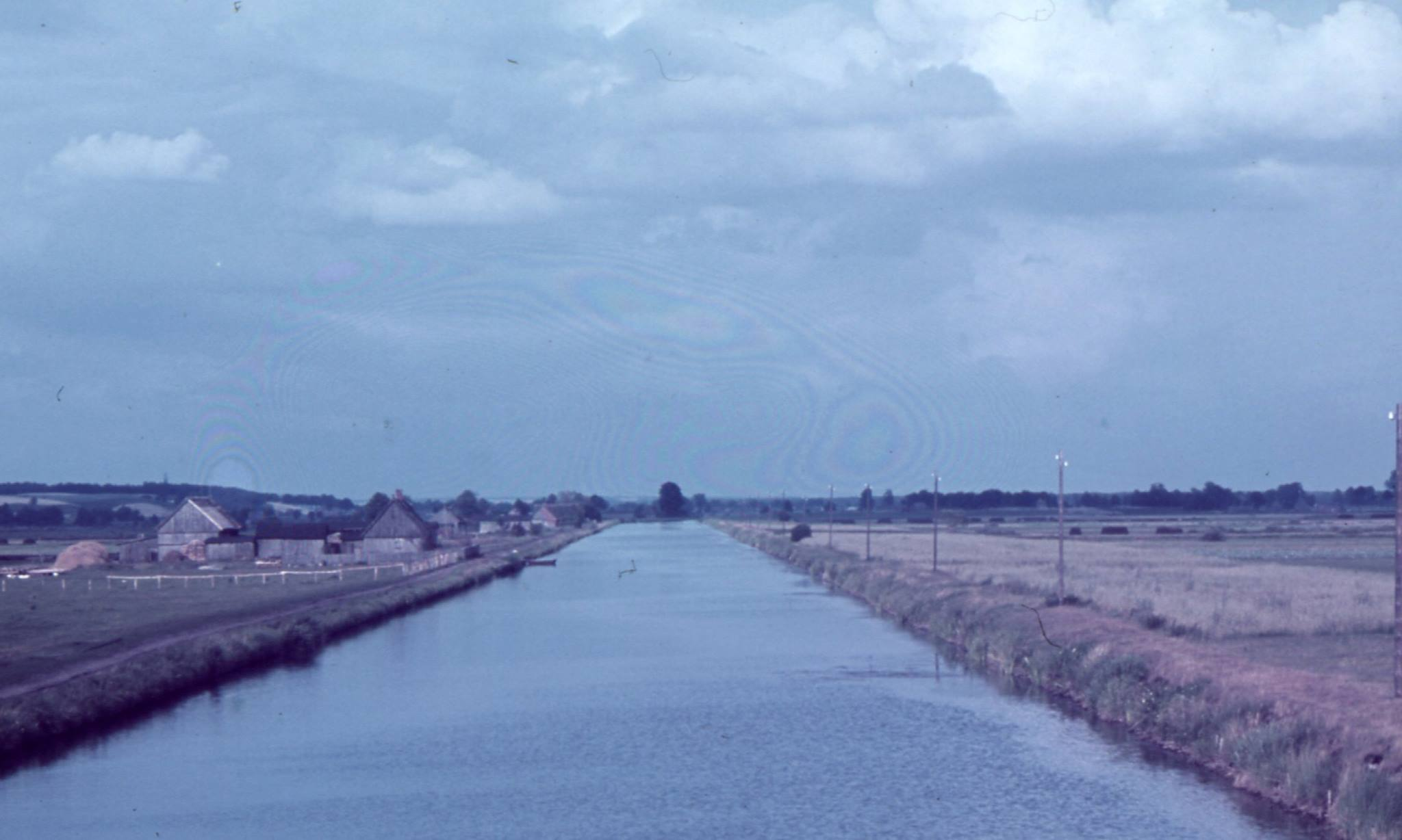 Pawłówek (Kanal-Kolonie B) in 1944